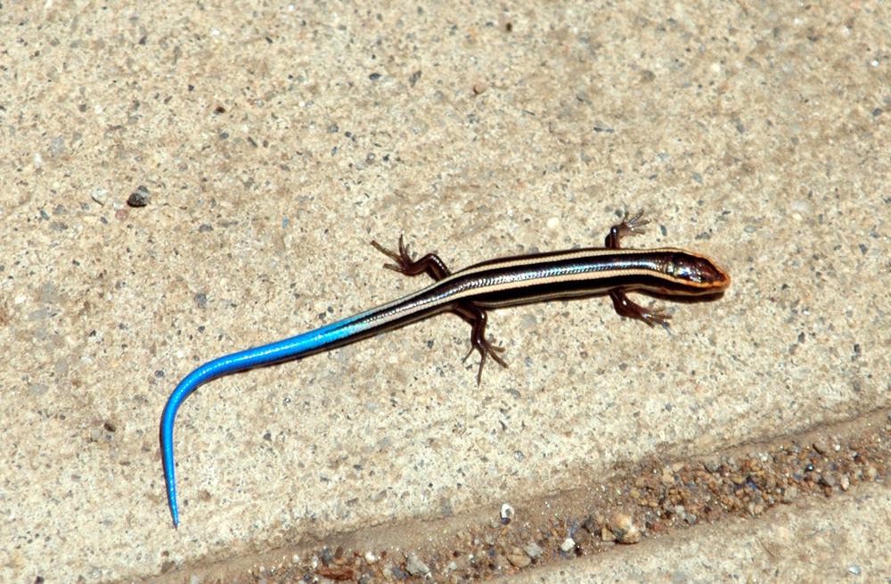 Western skink photographed in San Diego, California